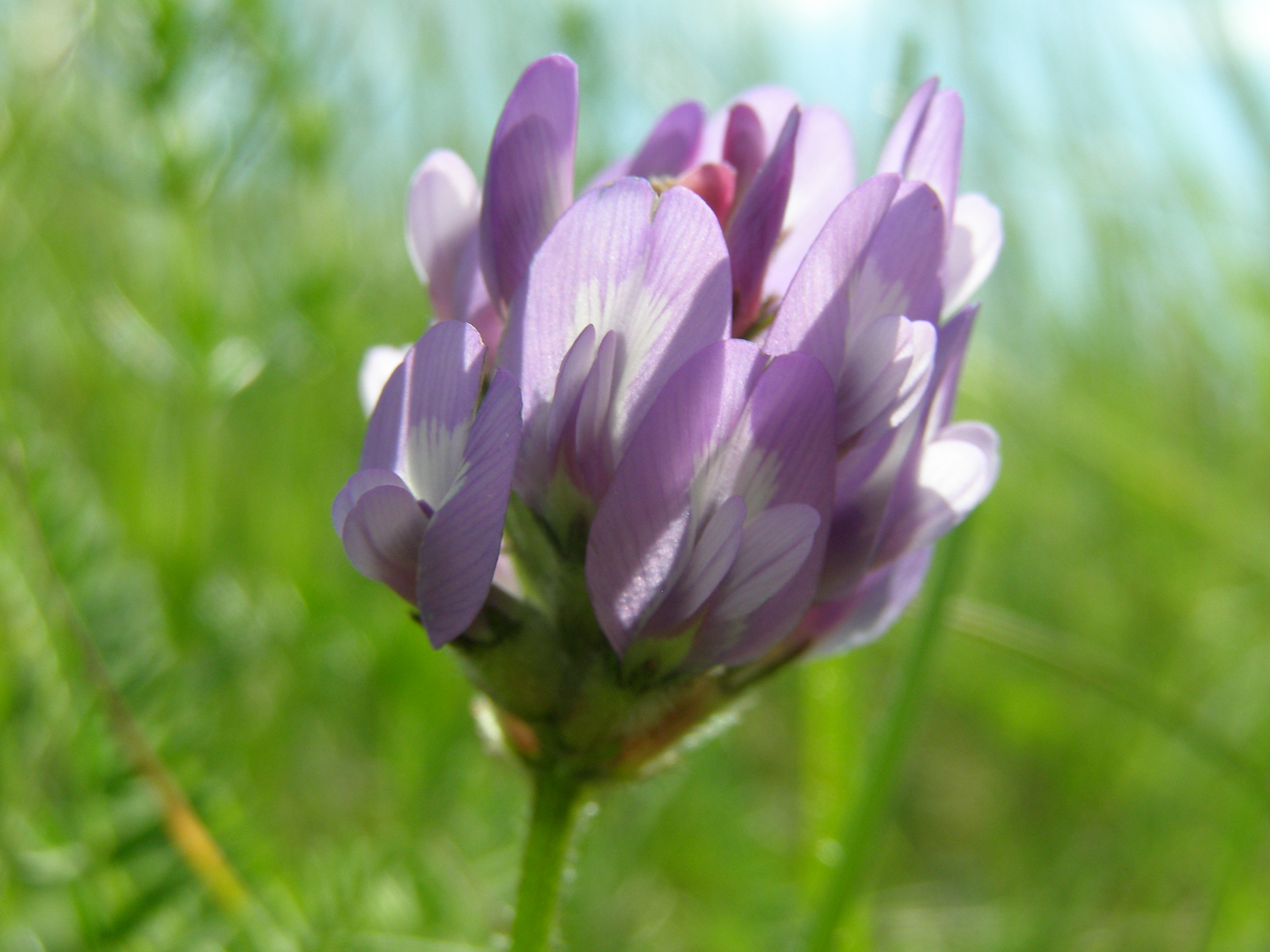 Astragalus danicus